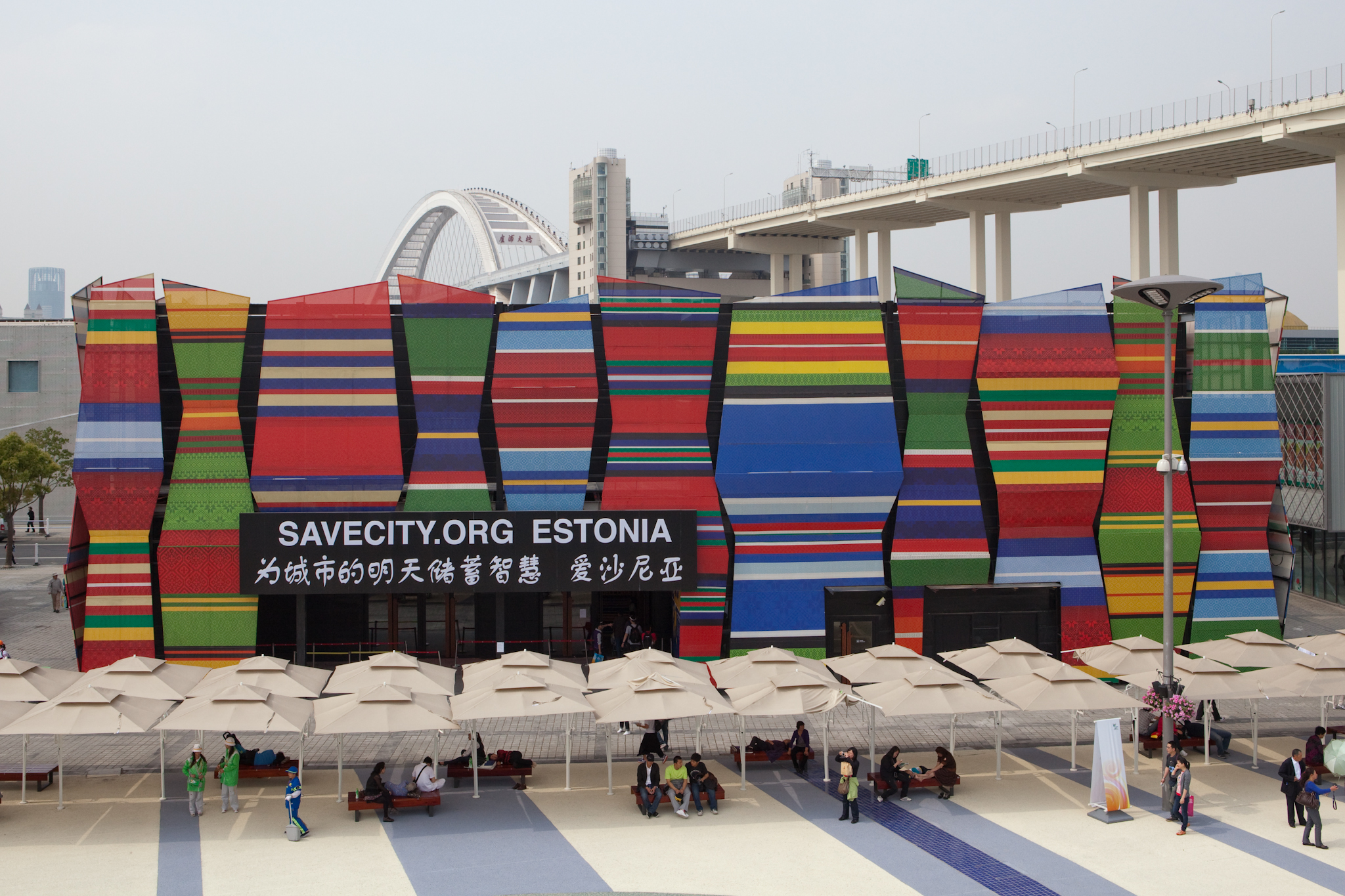 Estonia's Pavillion at the 2010 World Expo in Shanghai